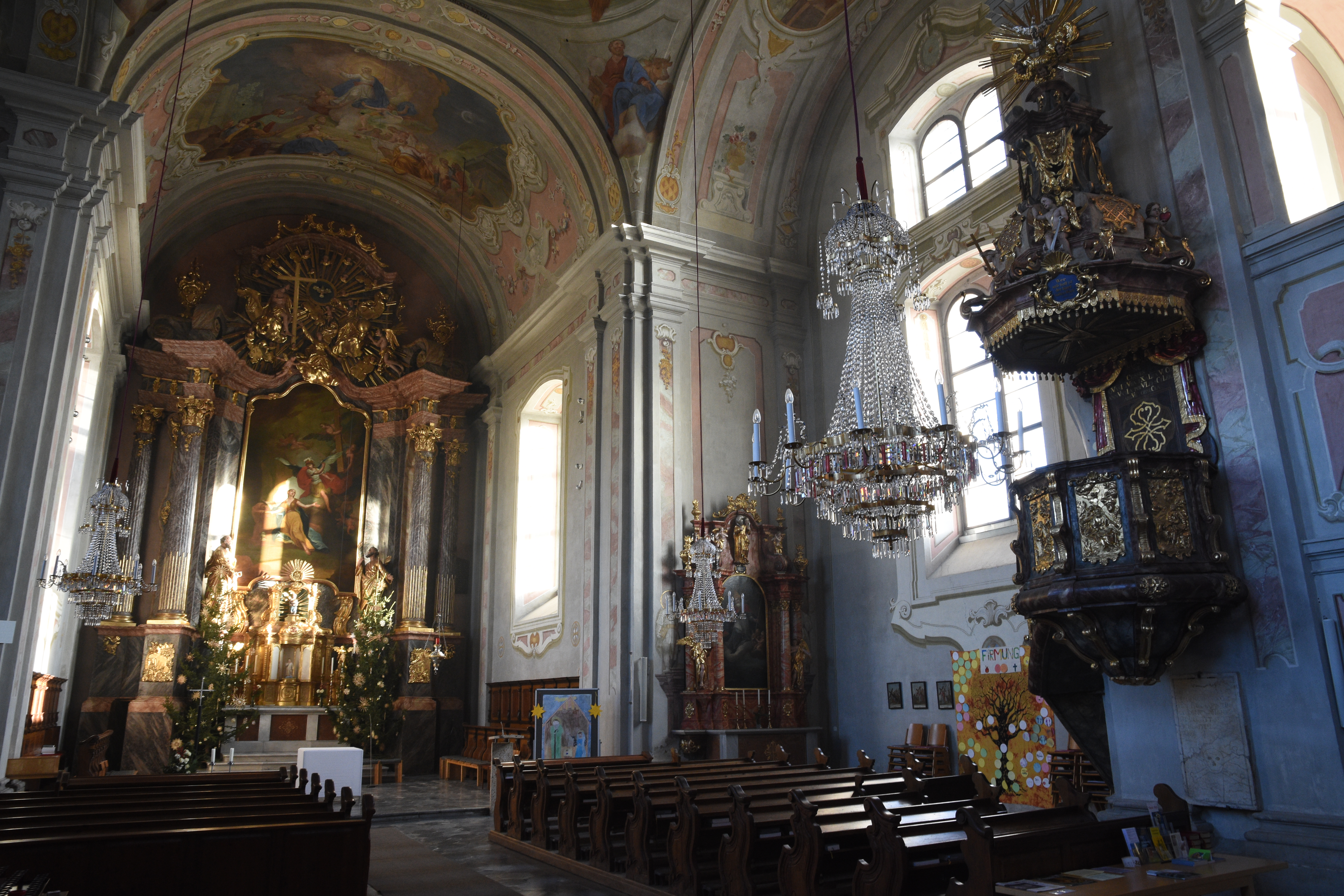 Mary Magdalene Church Köflach Interior